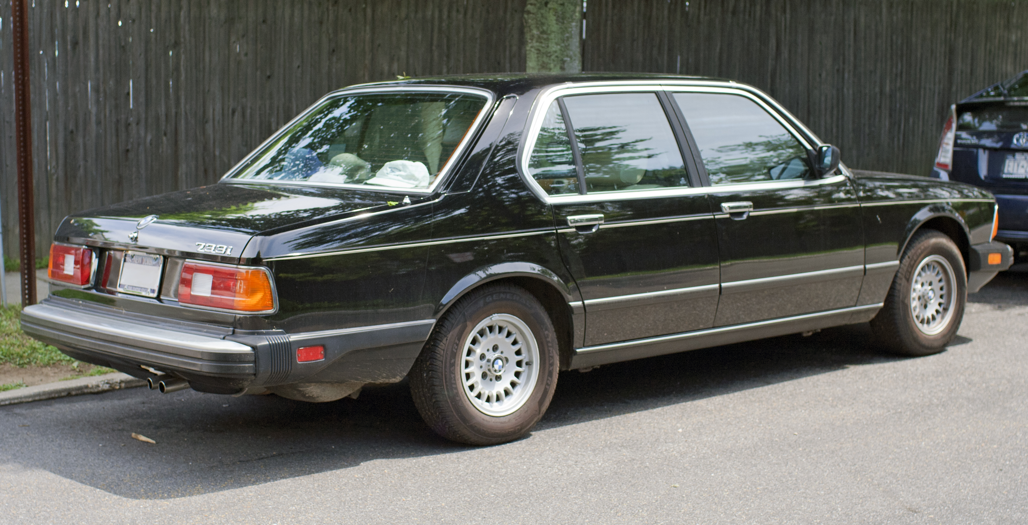 1984 BMW 733i, federalized US-market version